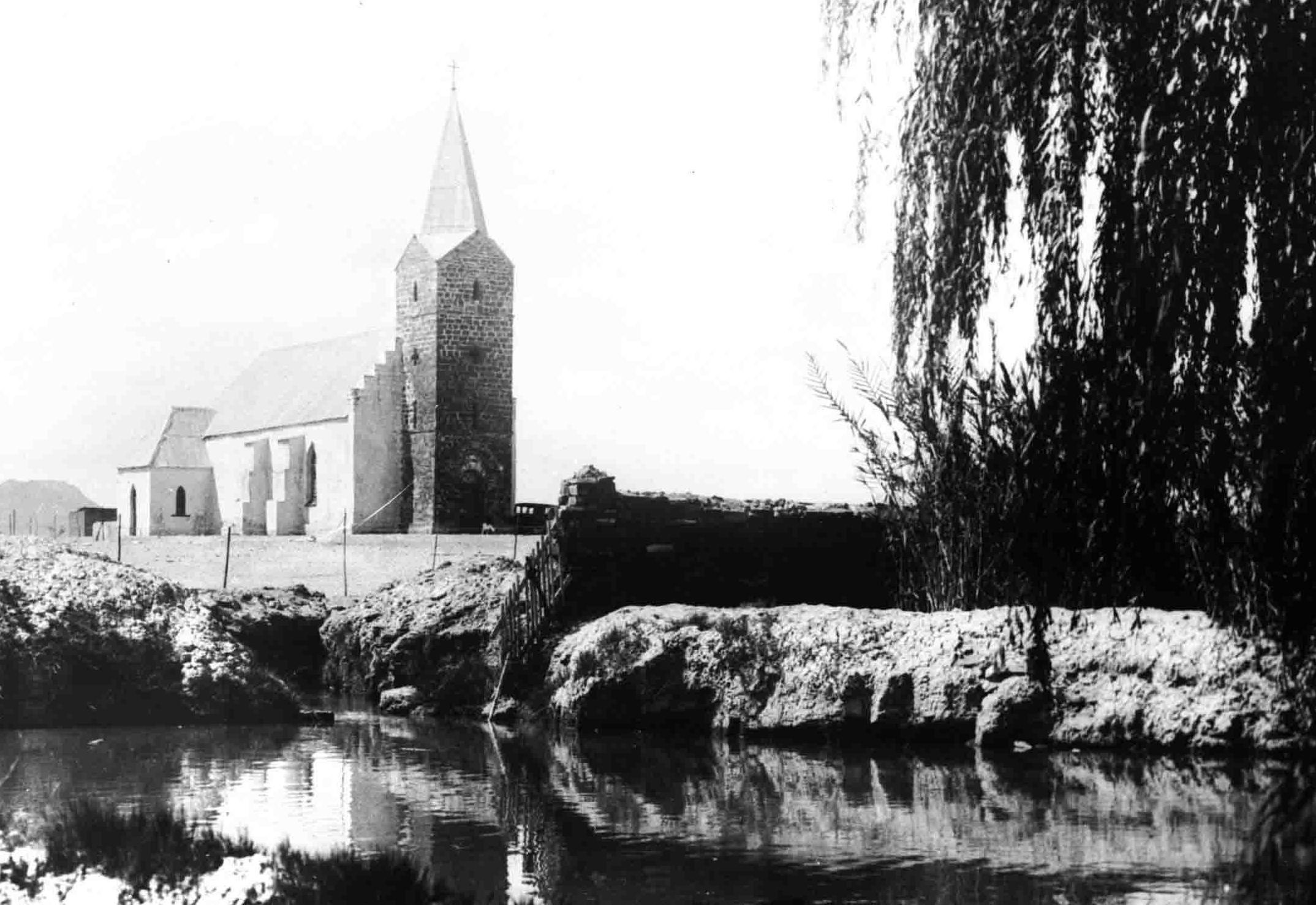 Lutheran Eben-haEzer Church in Berseba, Namibia